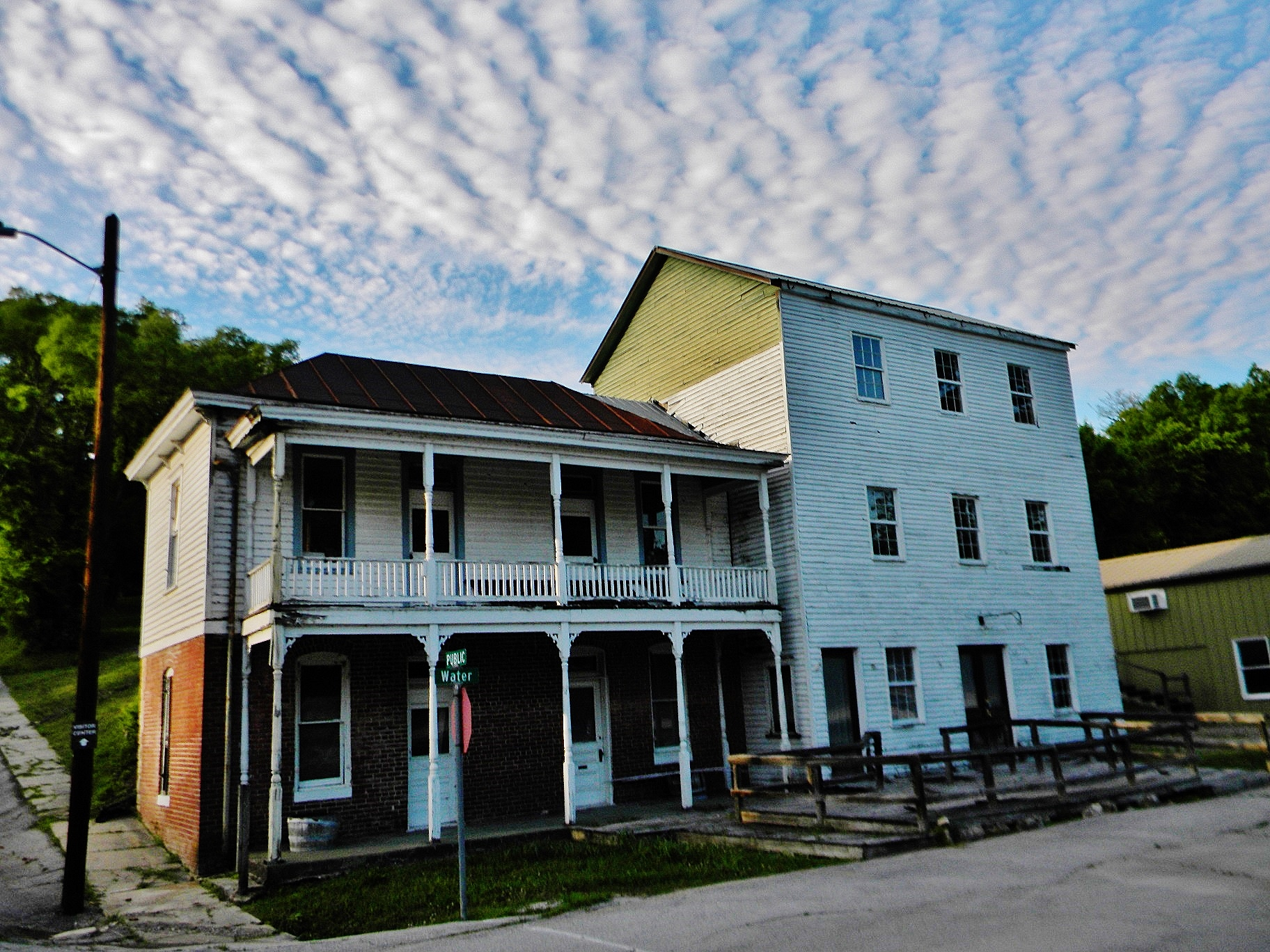 Mindrup House-Store Buildings are adjacent to Katy Trail.